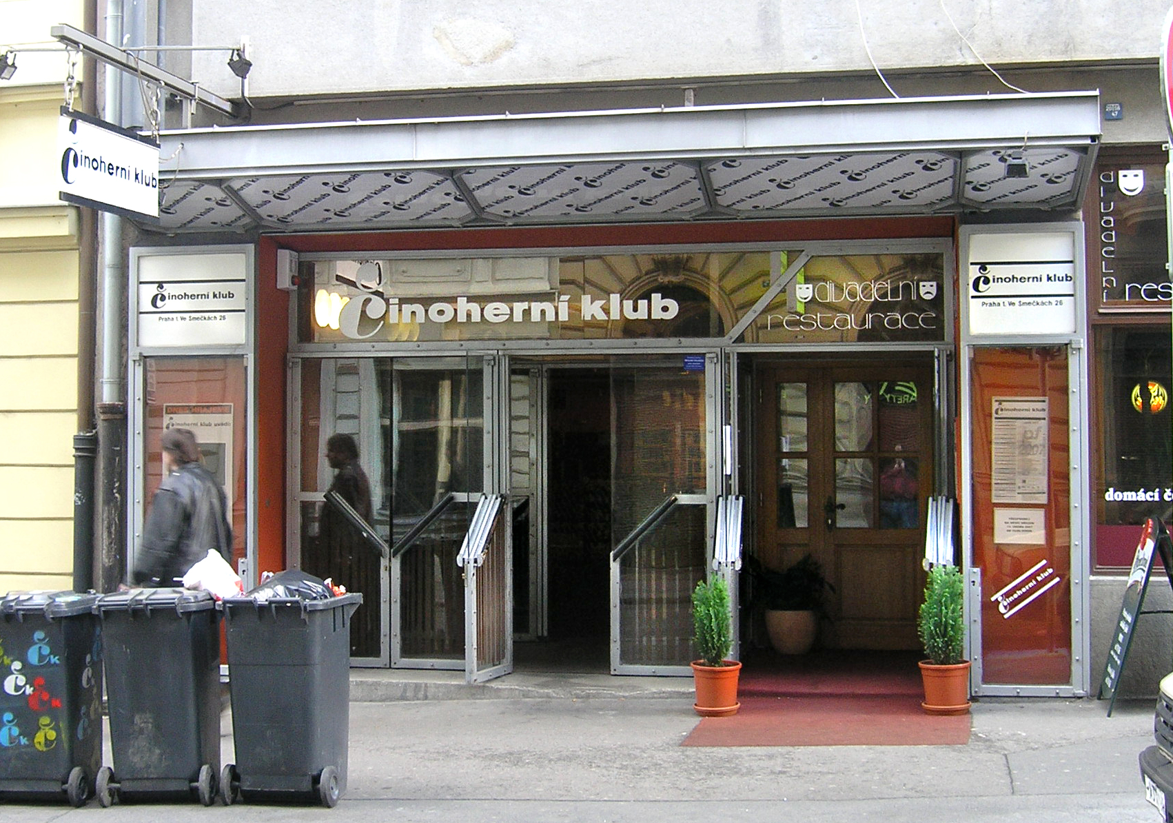 Činoherní klub thearte, Prague.